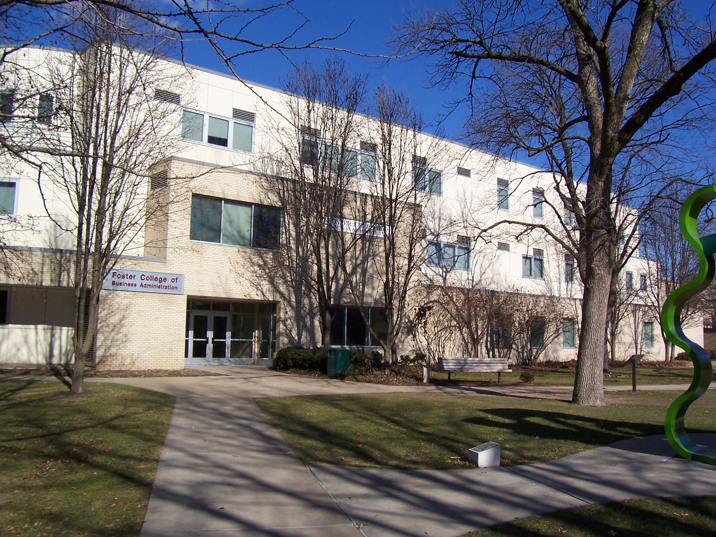 Bradley University's Baker Hall, taken en:2006-en:02-08. Category:Bradley University Category:Images of Peoria, Illinois